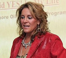 Loral Langemeier on Stage